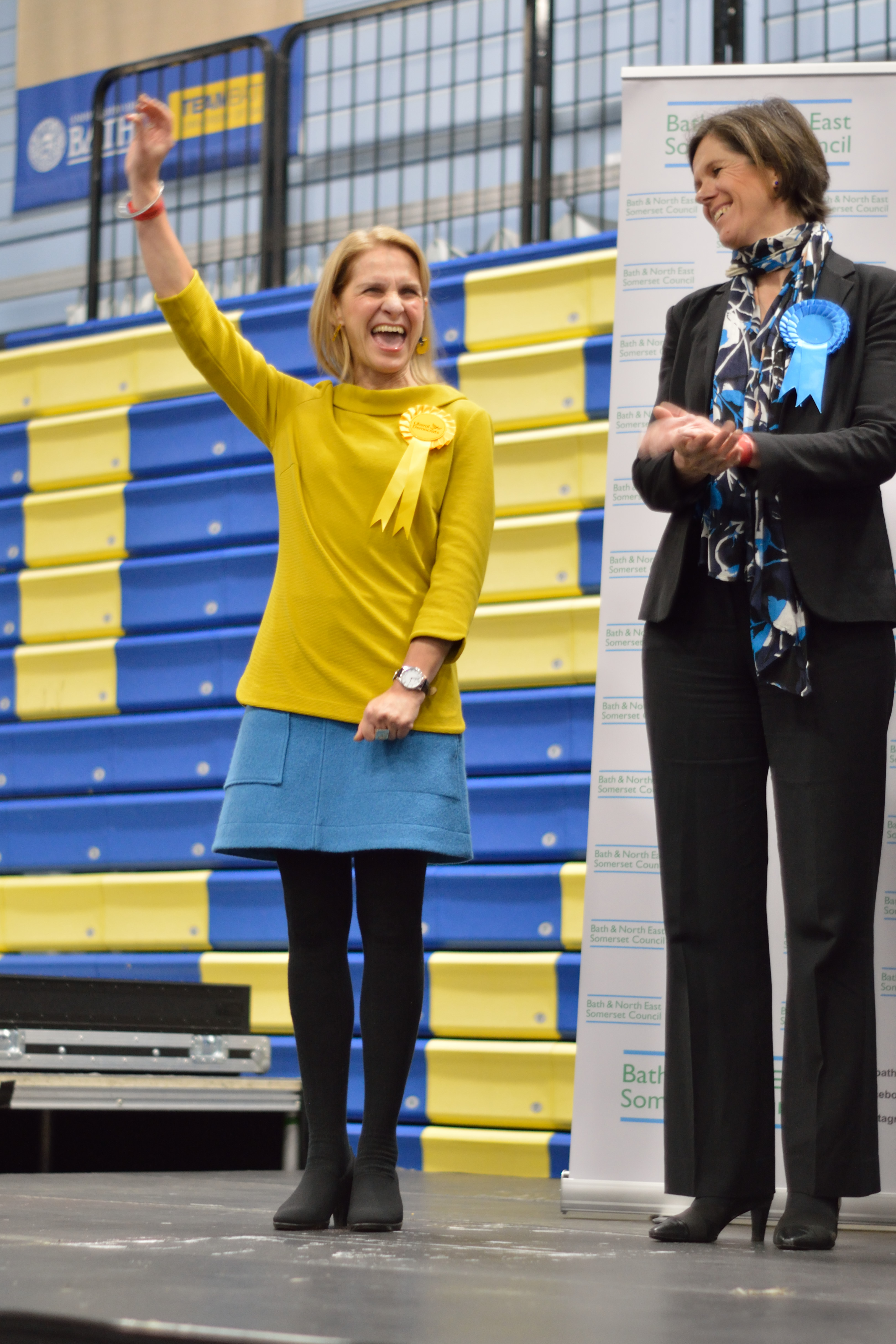 Wera Hobhouse after the announcement she had won the Bath constituency 2019 United Kingdom general election, in the declaration of results after the count held in the University of Bath Sports Training Village hall. The Conservative candidate Annabel Tall is alongside her.